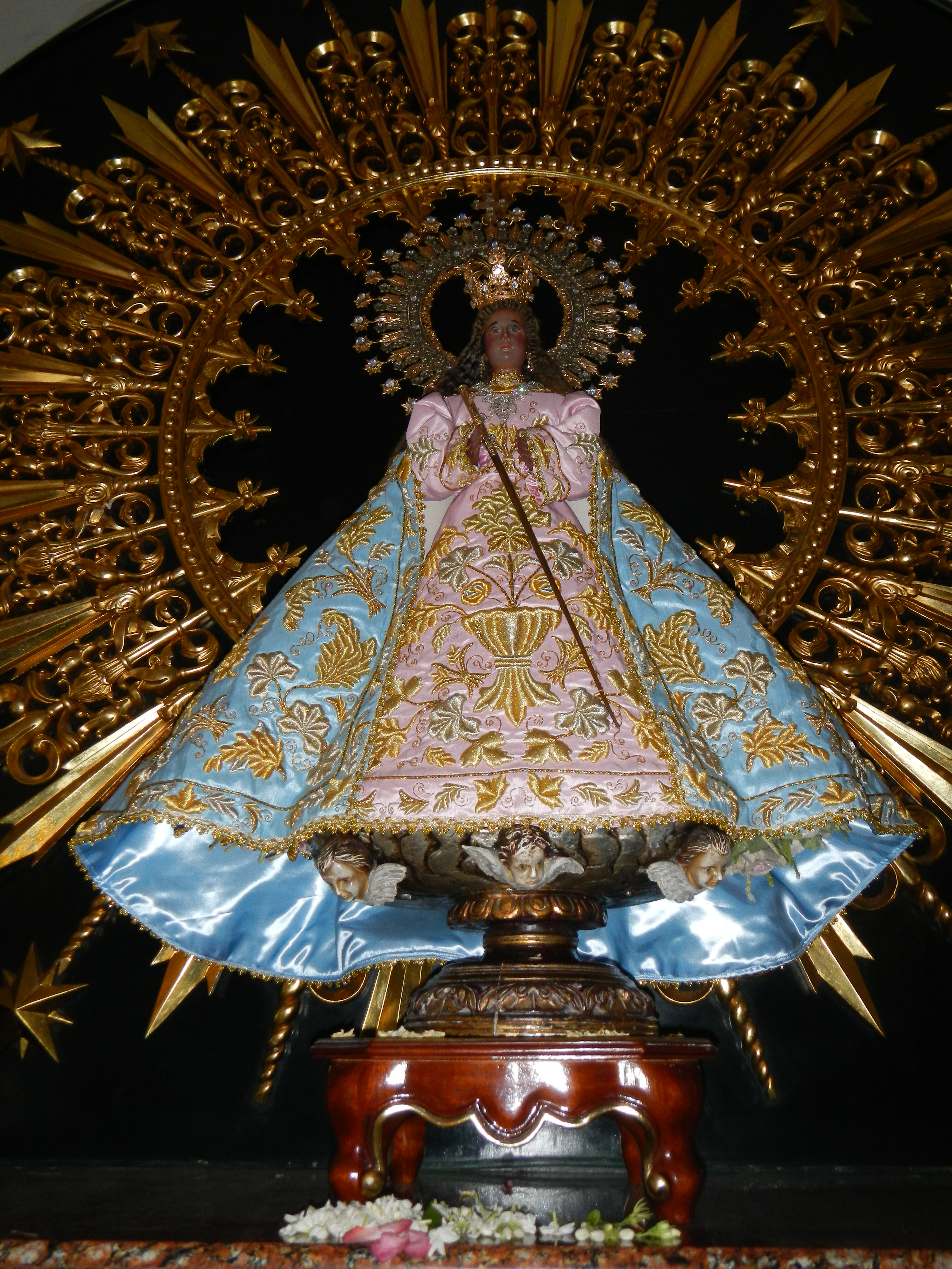 (F-1790) Shrine of Our Lady of Peace and Good Voyage (Nuestra Señora de la Paz y Buen Viaje) : La Paz 2314 Tarlac, Philippines[1] 2314 Zip Code[2] Titular: Our Lady of Peace and Good Voyage, January 24 Former Parish Priest: Father Ramon Capuno[3] Roman Catholic Diocese of Tarlac[4] The Church of La Paz[5]Pilgrims seek healing in La Paz, Tarlac January 17, 2010 - [6]Our Lady of Peace and Good Voyage (Nuestra Señora de la Paz y Buen Viaje) Fr. Ramon Capuno, former rector-Parish Priest of La Paz’s parish church,Coordinates: 15°26'32"N 120°43'47"E [7]Vicariate of Immaculate Conception (Victoria, Tarlac) Vicar Forane: Father Vely Lapitan